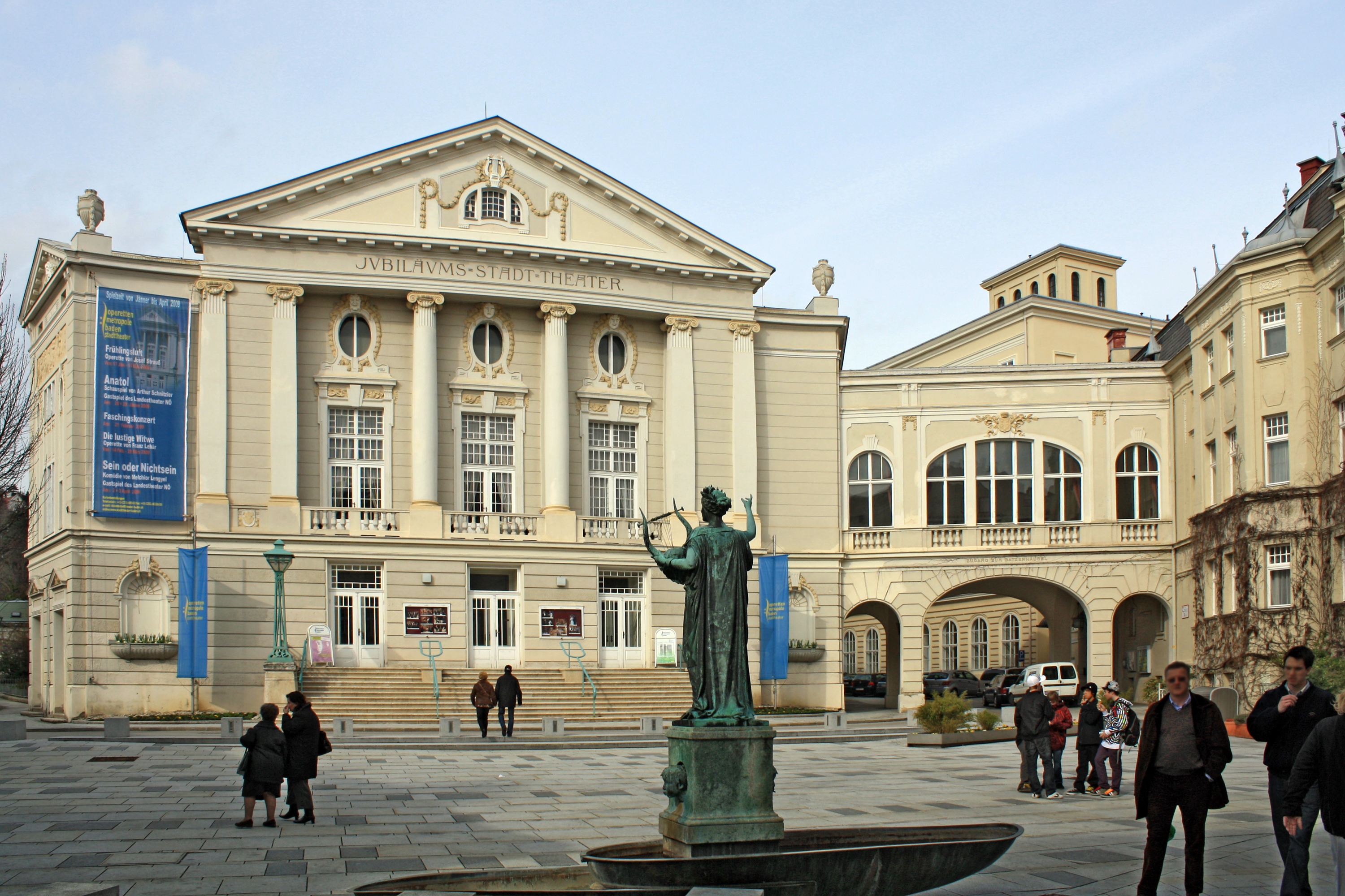 Theatre in Baden Lower Austria